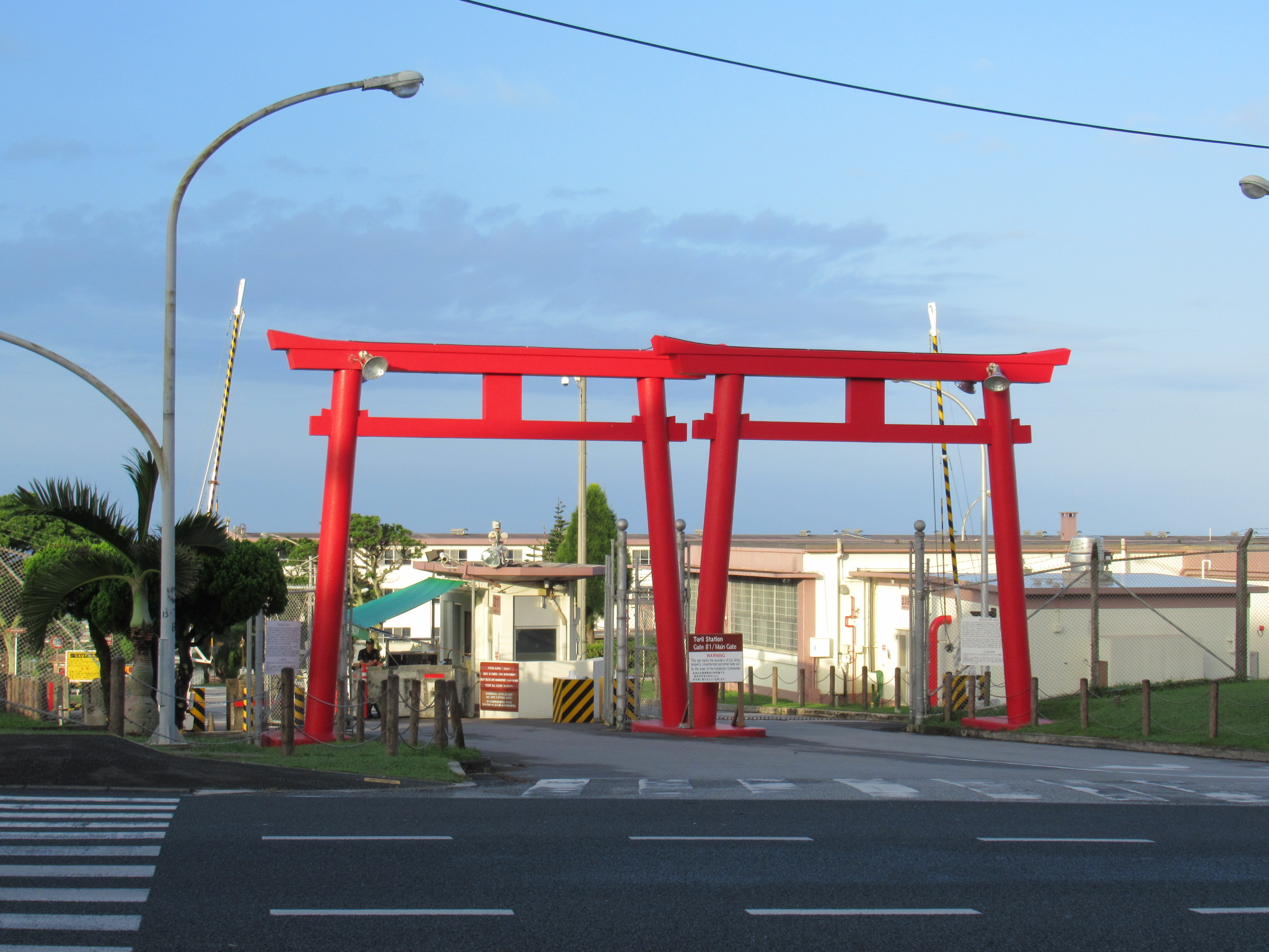 Main gate of the Torii Station, Yomitan, Okinawa Prefecture.